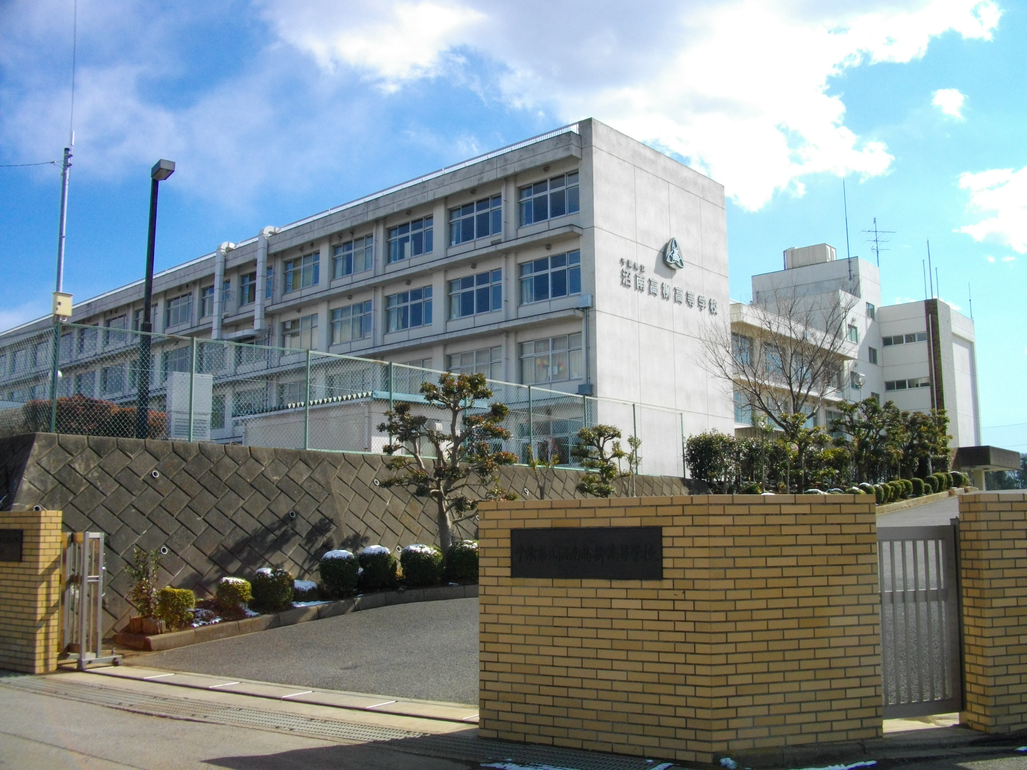 Shonan-Takayanagi High School